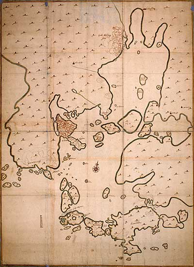 A map of Helsinki, Finland, 1645.